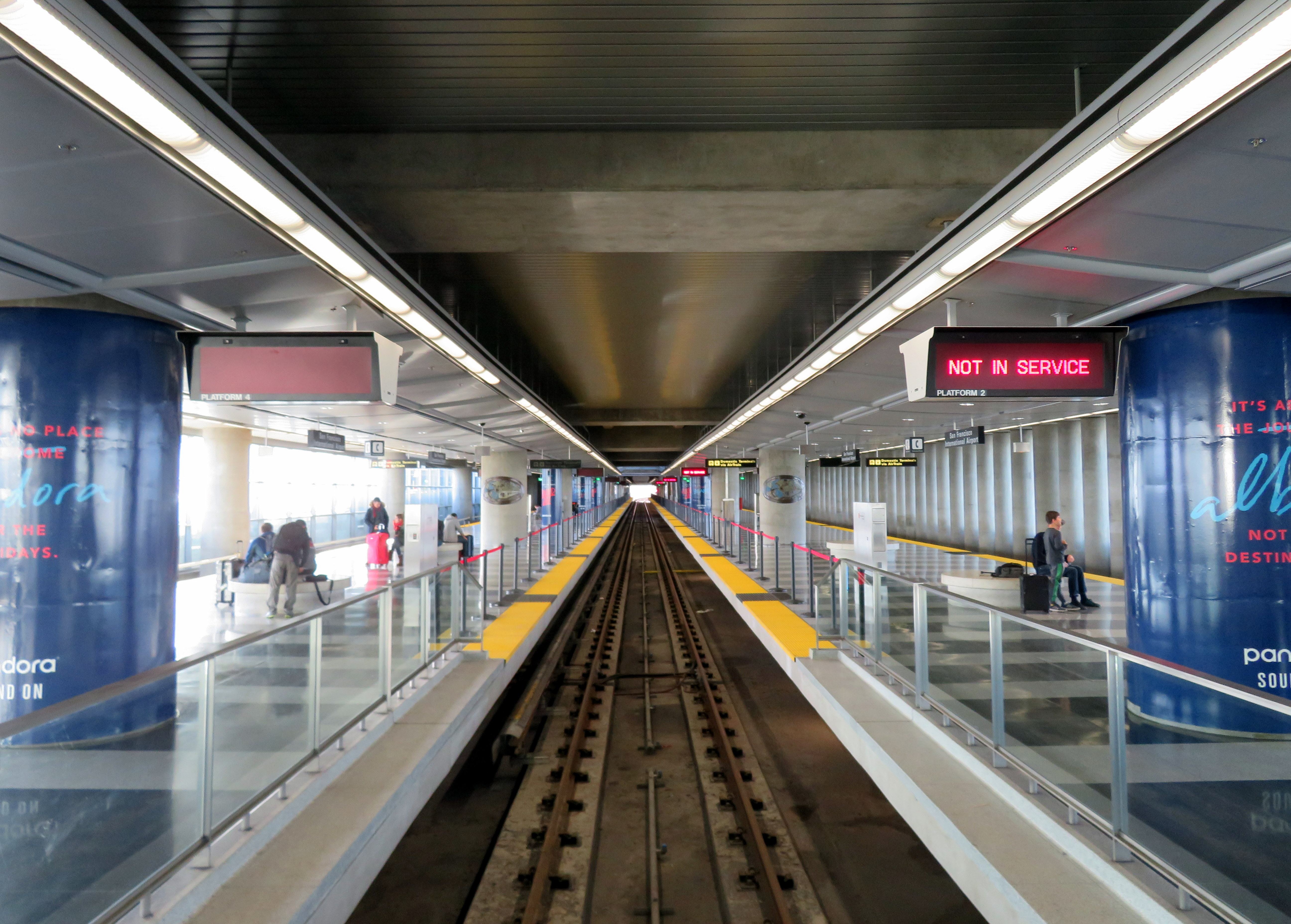 The unused middle track at SFO station in December 2018